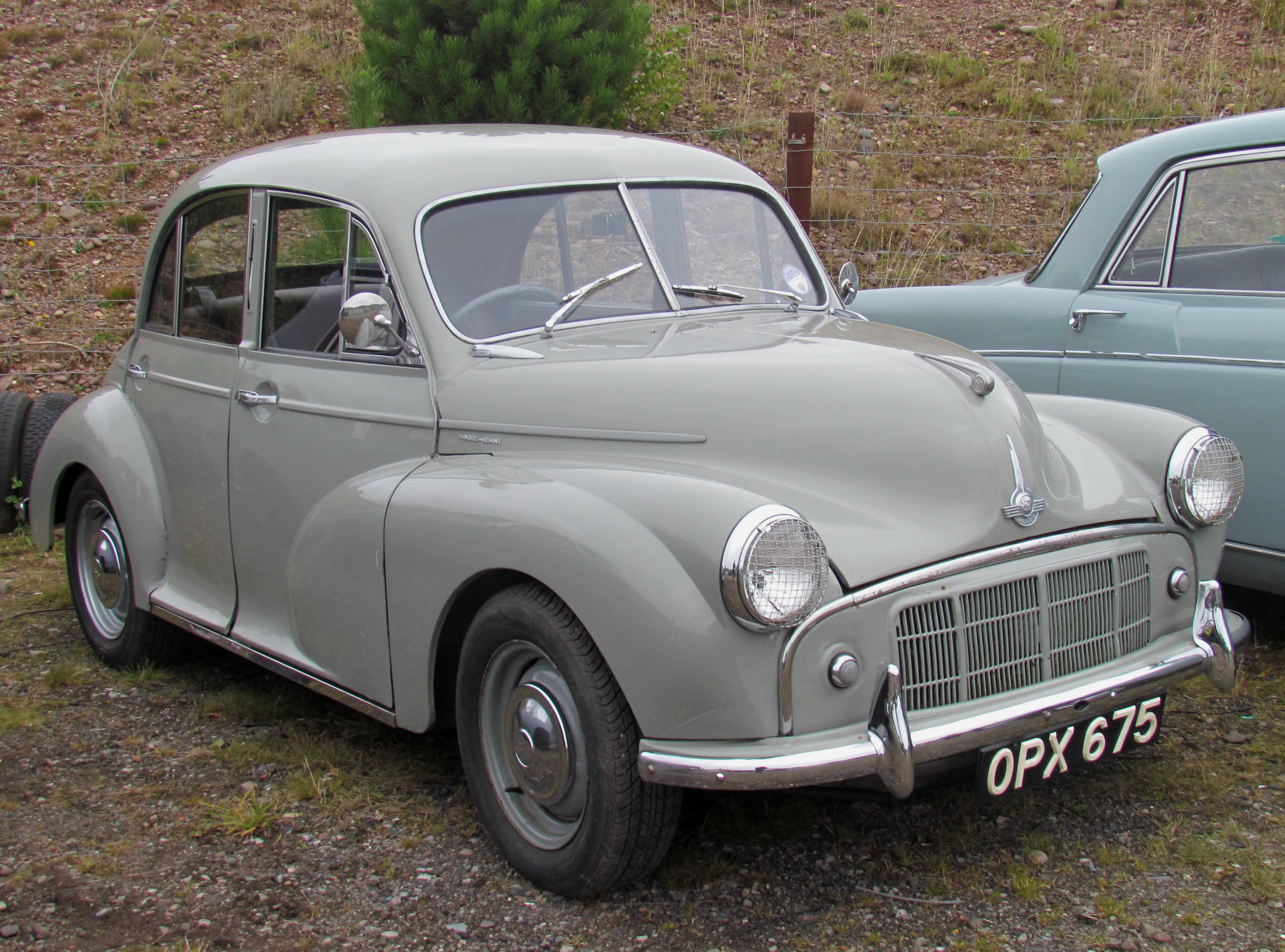 Morris Minor - OPX 675